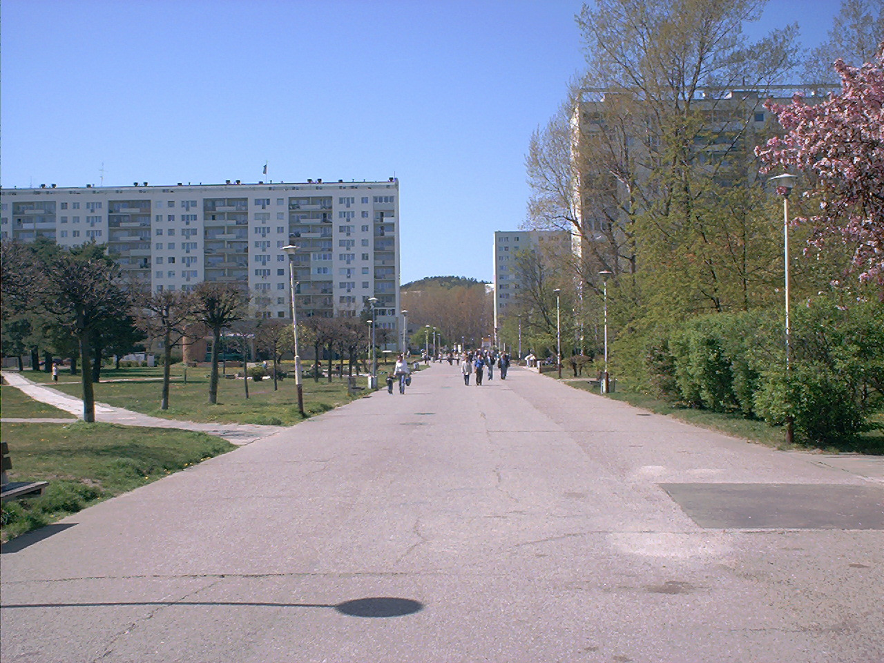 Zabianka - district of Gdansk.